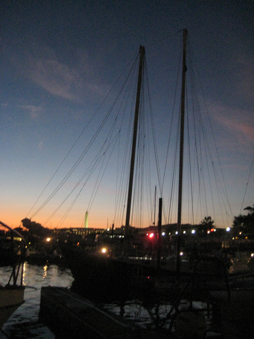 View of the American Spirit schooner docked at Gangplank Marina in Washington, D.C. The Washington Monument is in the background.